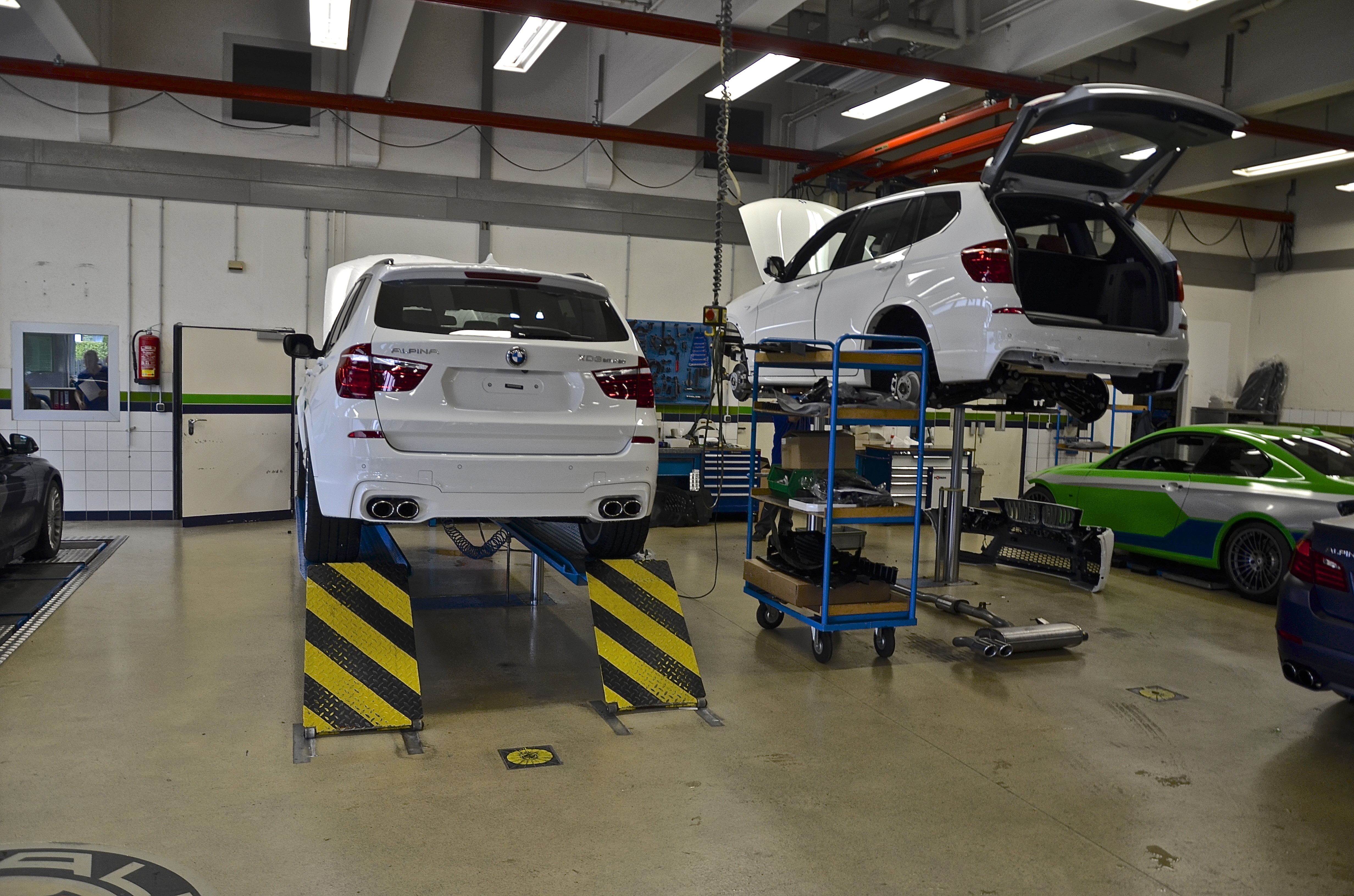 BMW ALPINA body shop